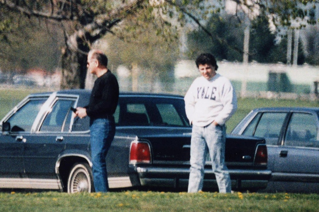 Whitey Bulger and his enforcer Kevin Weeks surveillance photo